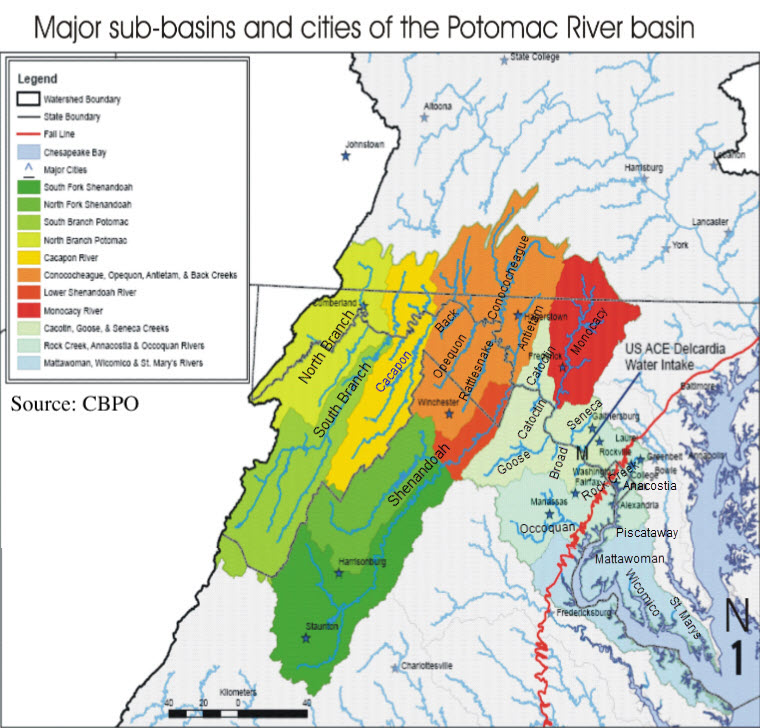 This map shows the watershed of the Potomac RIver, including its major tributaries. It also identifies the major tributaries by name.